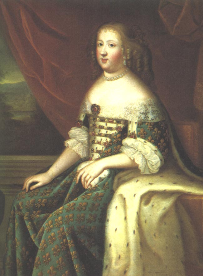 Maria Theresa of Austria, queen consort of France as wife of Louis XIV